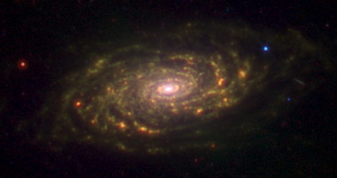 Image of the M63 galaxy in Infrared at 3.6 (blue), 8.0 (green) and 24.0 (red) µm. The image has been made by myself (Médéric Boquien) from the data retrieved on the SINGS project public archives of the Spitzer Space Telescope (courtesy NASA/JPL-Caltech)